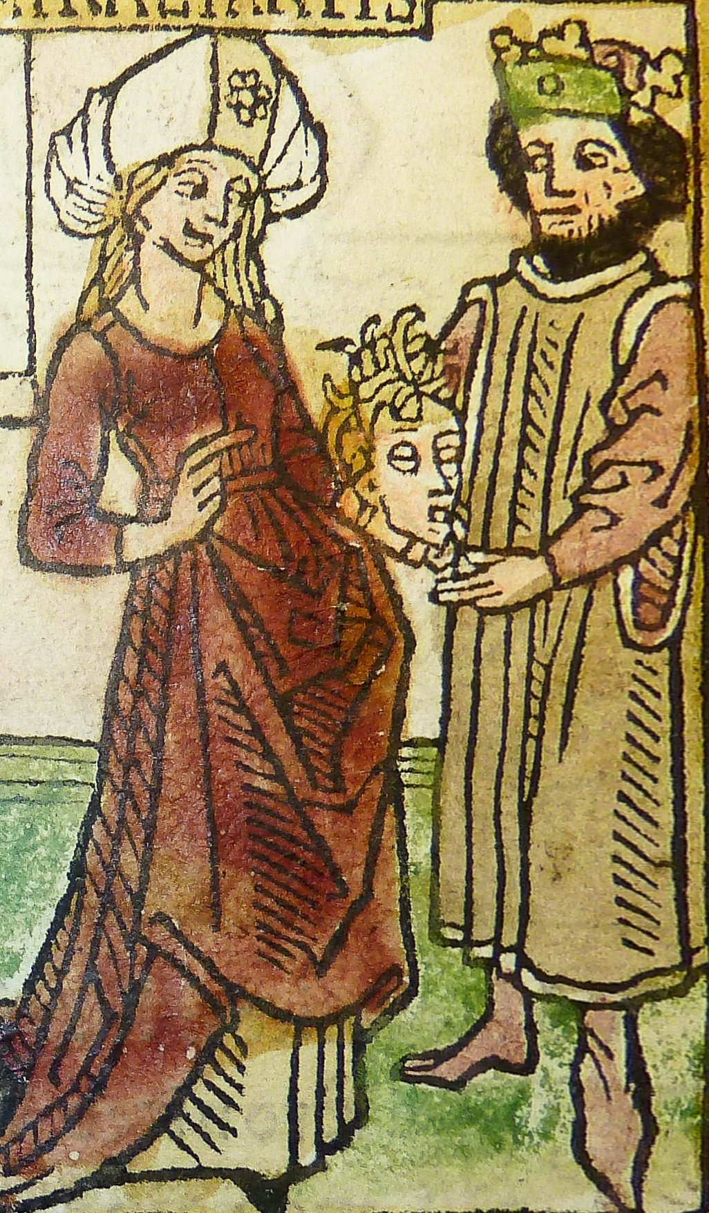 Woodcut illustration (leaf [l]10v, f. c) of Chiomara, wife of Orgiagon of Galatia, hand-colored in red, green, yellow and black, from an incunable German translation by Heinrich Steinhöwel of Giovanni Boccaccio's De mulieribus claris, printed by Johannes Zainer at Ulm ca. 1474 (cf. ISTC ib00720000). One of 76 woodcut illustrations (1 on leaf [e]8v dated 1473), each 80 x 110 mm., depicting scenes from the life of the women chronicled (for a full list of subjects, cf. W.L. Schreiber, Handbuch der Holz- und Metallschnitte des XV. Jahrhunderts (Nendeln: Kraus Reprints, 1969), no. 3506). "Pour la première moitie le nom se trouve inscrit à côte de la tête de chaque femme, pour le reste il es ajouté entre les deux réglettes. Il n'y en a que trois, qui n'ont qu'un seul trait carré."--Schreiber. Established form: Zainer, Johannes, ‡d d. 1541?. Penn Libraries call number: Inc B-720 All images from this book Penn Libraries catalog record